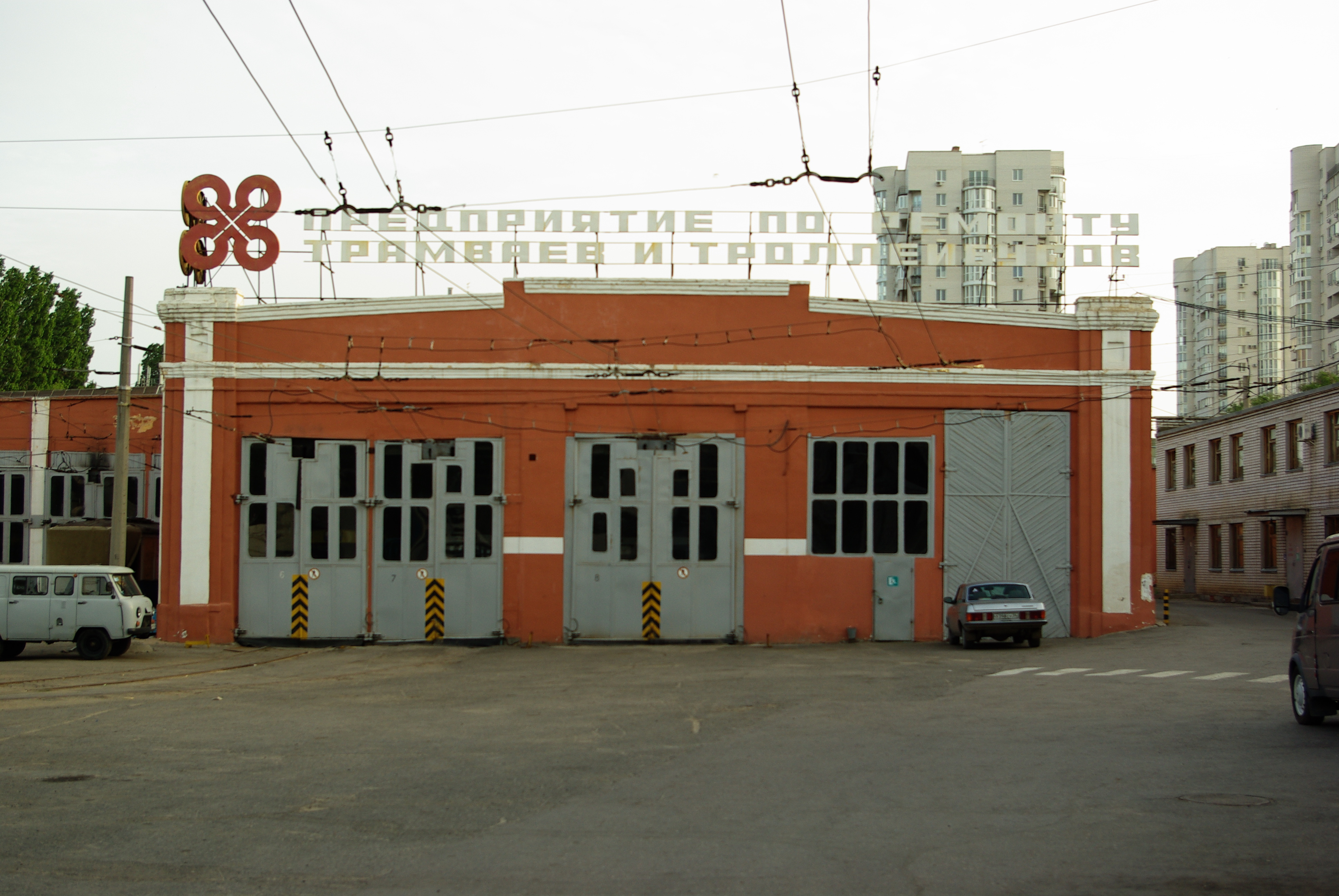 The Plant repair trams and trolleybuses in Volgograd